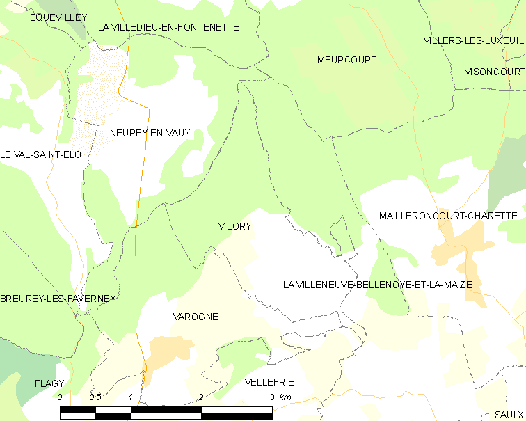 Map of French municipality